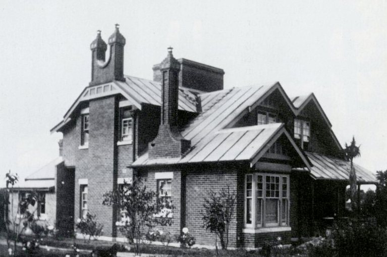 82 Pennant Hills Road, Normanhurst, Sydney. The grand house was built by Norman Selfe and remains a local landmark. Built from 1894.